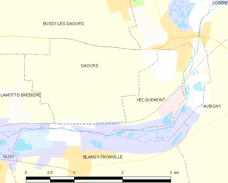 Map of French municipality Vecquemont